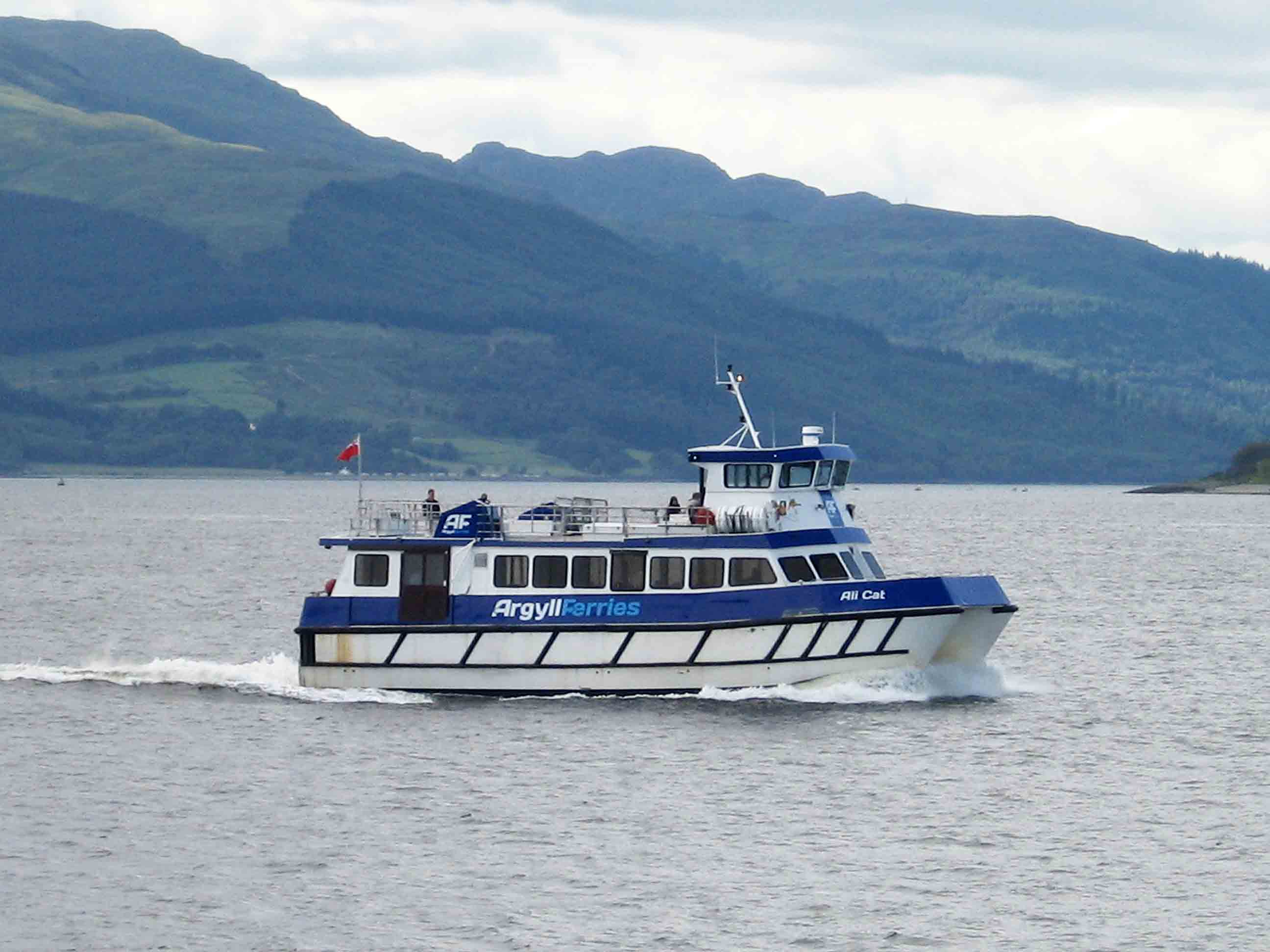 MV Ali Cat in Argyll Ferries Ltd livery on the second day of the new passenger-only Dunoon-Gourock service.